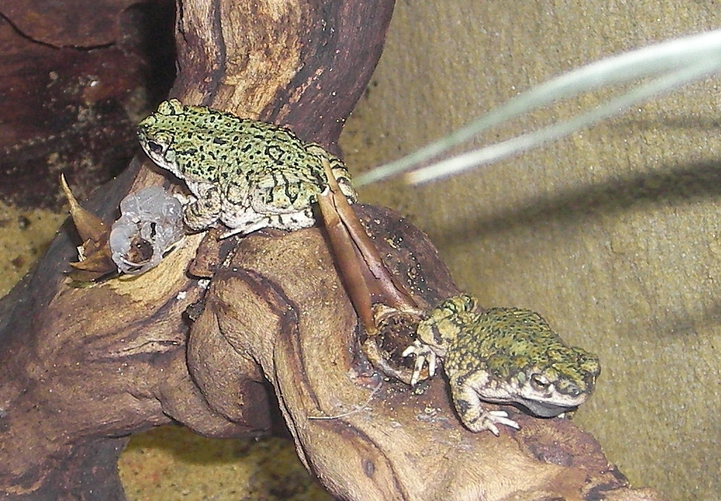 Bufo debilis